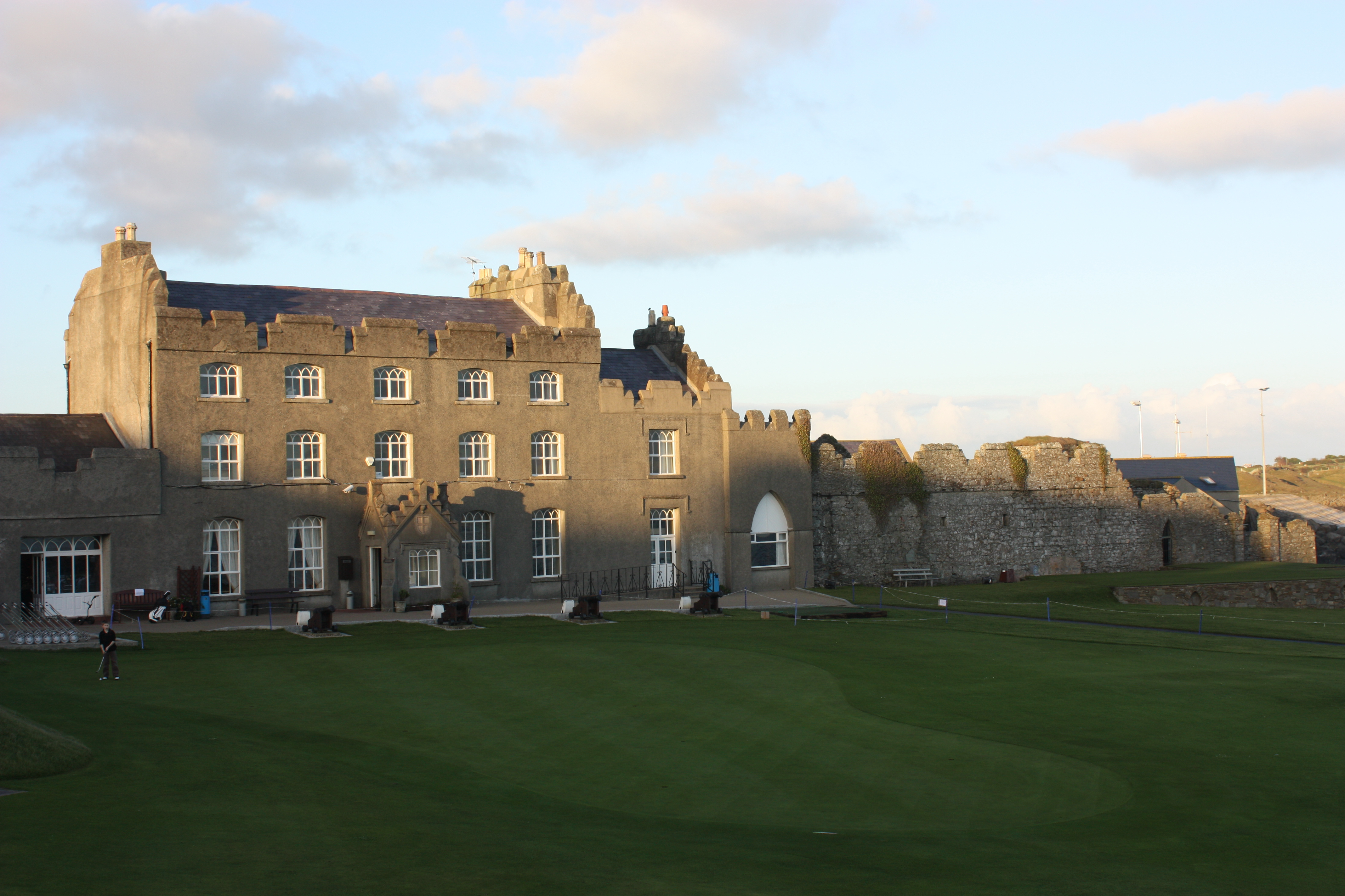 Ardglass Golf Club, Castle Place, Ardglass, County Down, Northern Ireland, November 2010